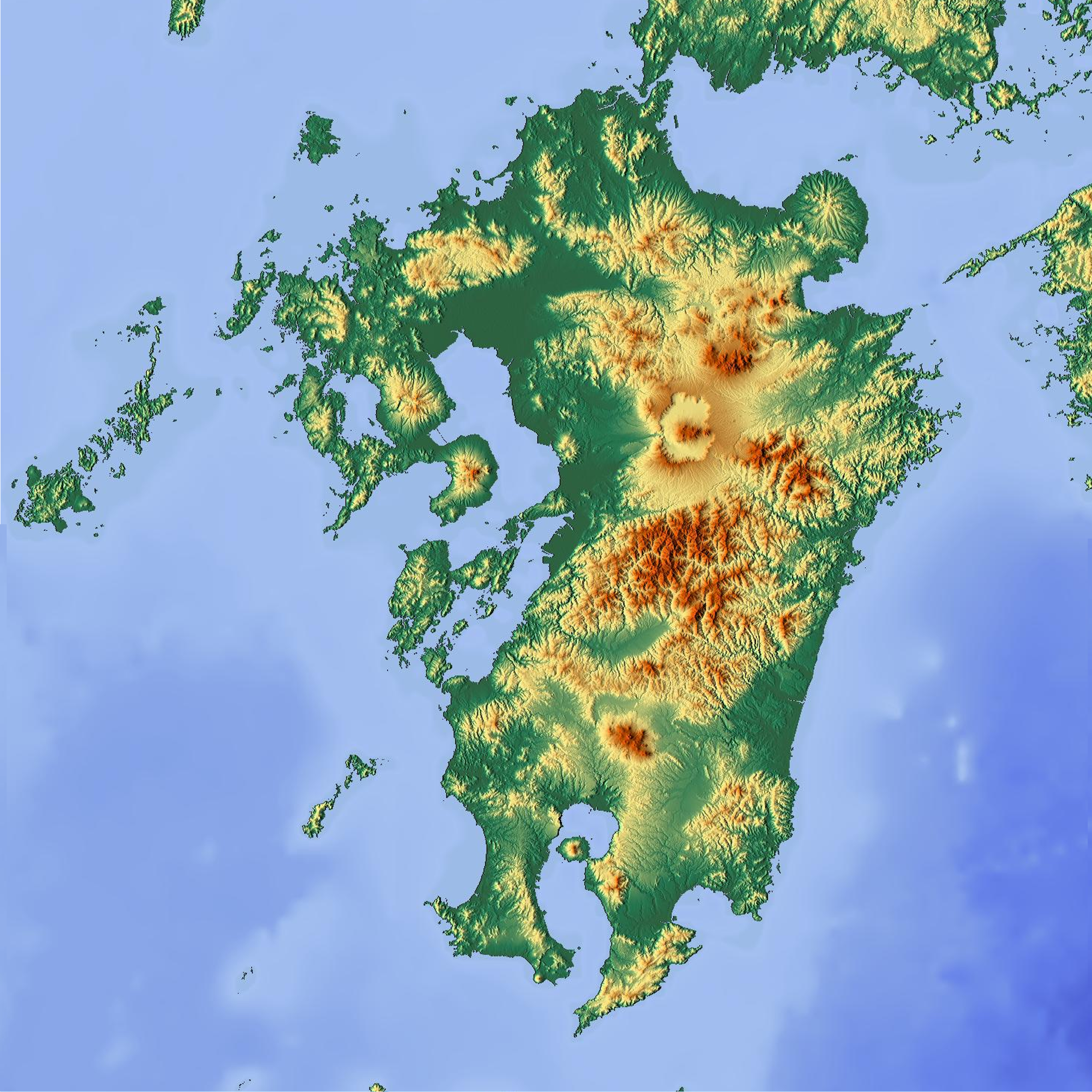 Topographic map of Kyushu, Japan